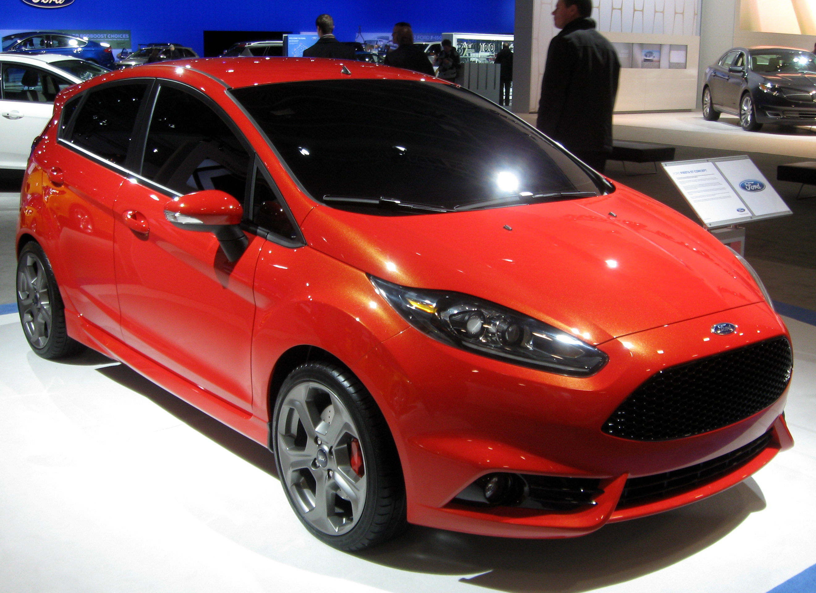 Ford Fiesta ST concept photographed in Washington, D.C., USA.